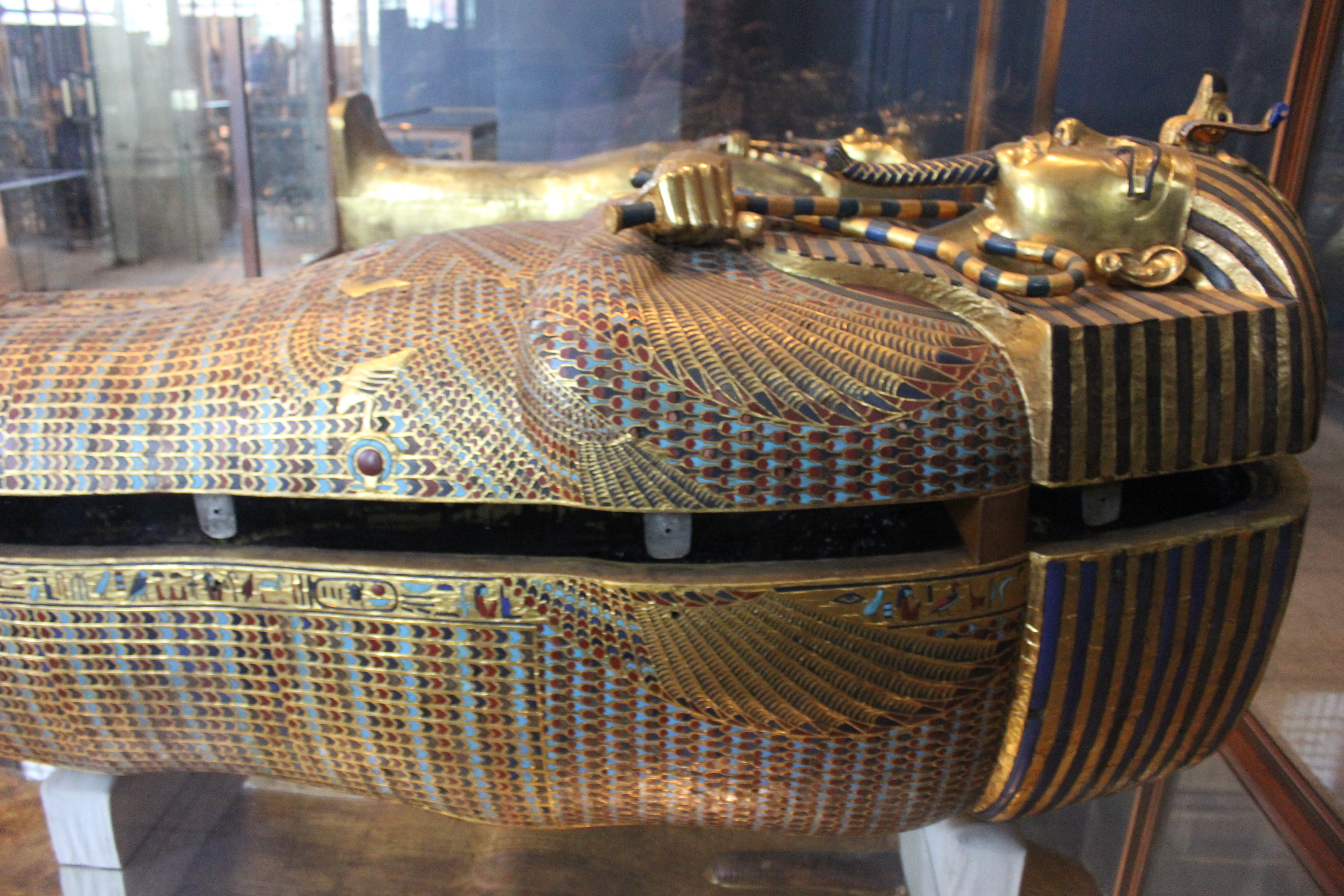 Egyptian Museum in Cairo, Egypt.)